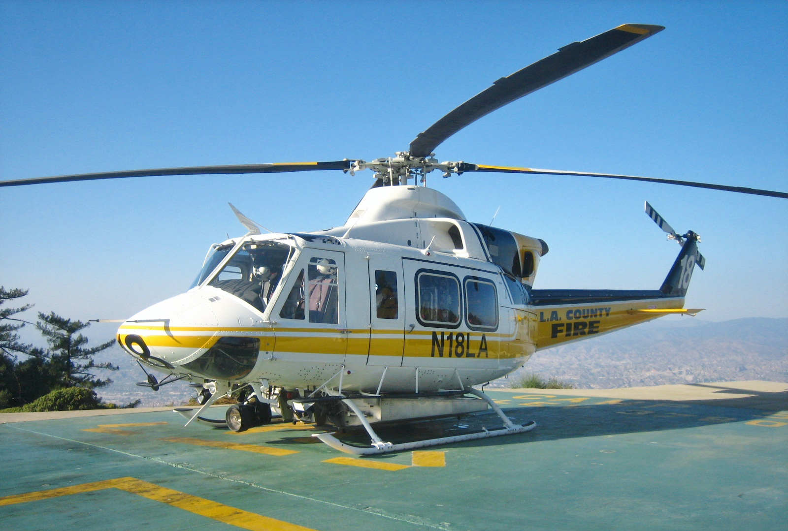 A Los Angeles County Fire Department Bell 412 helicopter, manufactured by Bell. Taken at LACoFD's Camp 9, a wildfire suppression camp located at the top of a mountain in the Angeles National Forest. The site used to be part of Project Nike, designated "LA-98".